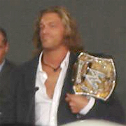 Edge at the WrestleMania 23 Fan Rally press conference.DSC02407